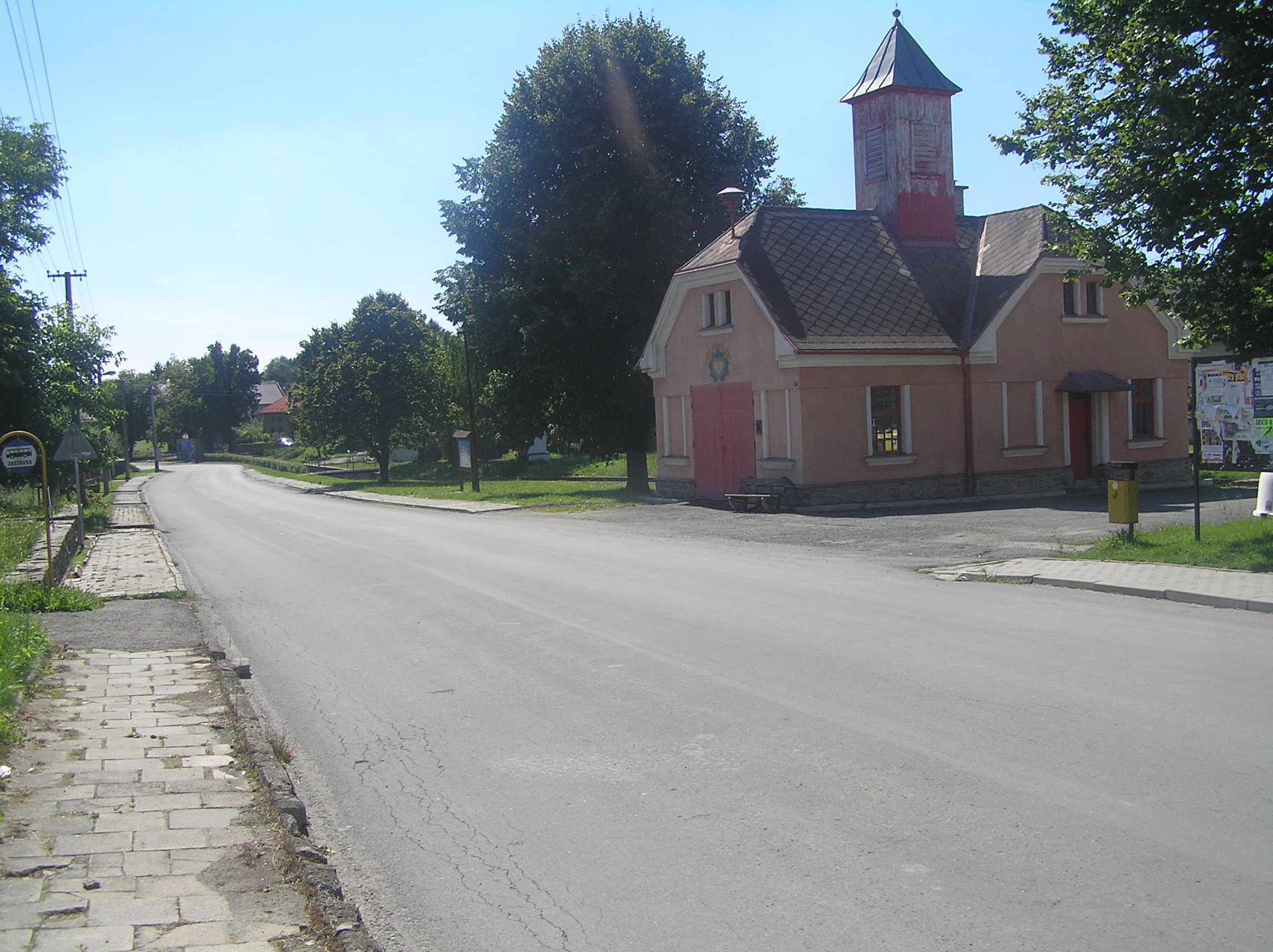 Výkleky is the village in Olomouc Region, Czech Republic